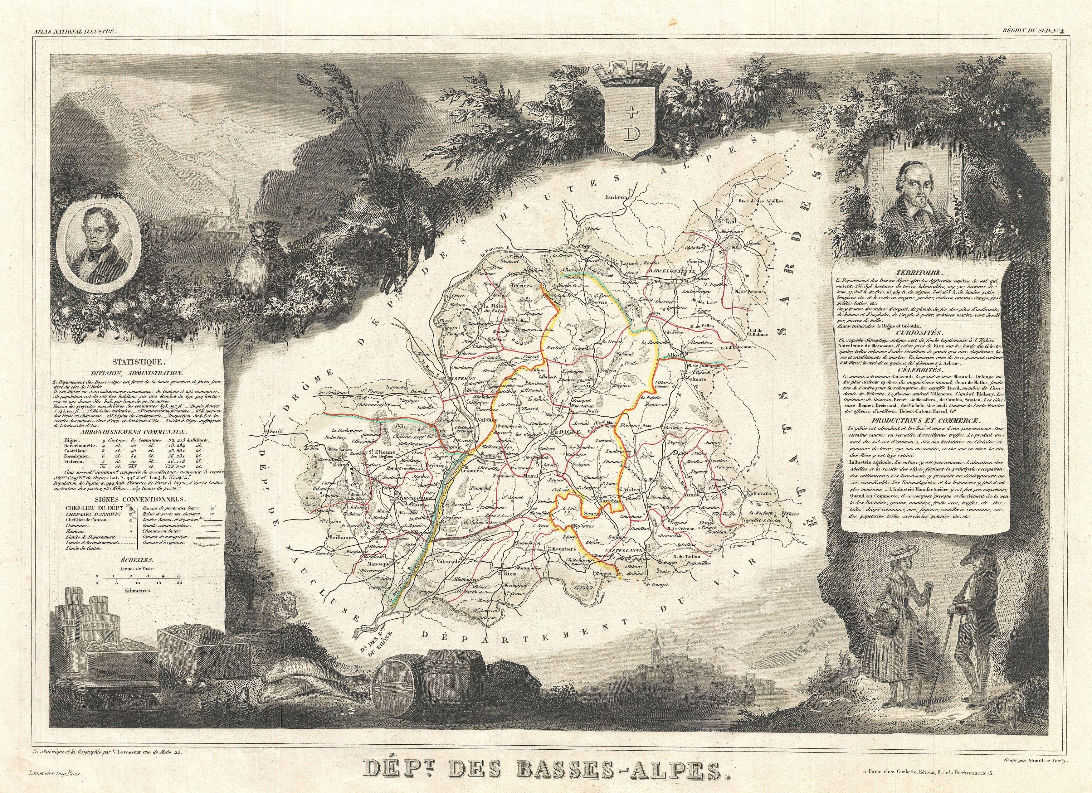 This is a fascinating 1857 map of the French department of Basses-Alpes, France. The whole is surrounded by elaborate decorative engravings designed to illustrate both the natural beauty and trade richness of the land. There is a short textual history of the regions depicted on both the left and right sides of the map. Published by V. Levasseur in the 1852 edition of his Atlas National de la France Illustree.